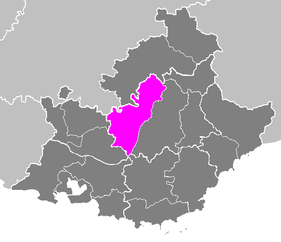 Maps of arrondissements and cantons of France: Arrondissement de Forcalquier.PNG